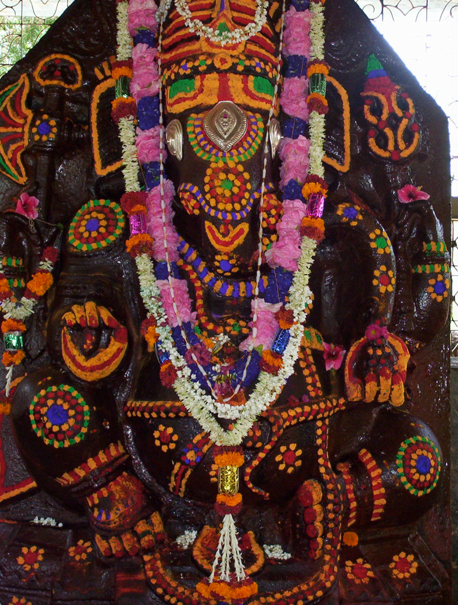 Ganesha in Holalkere